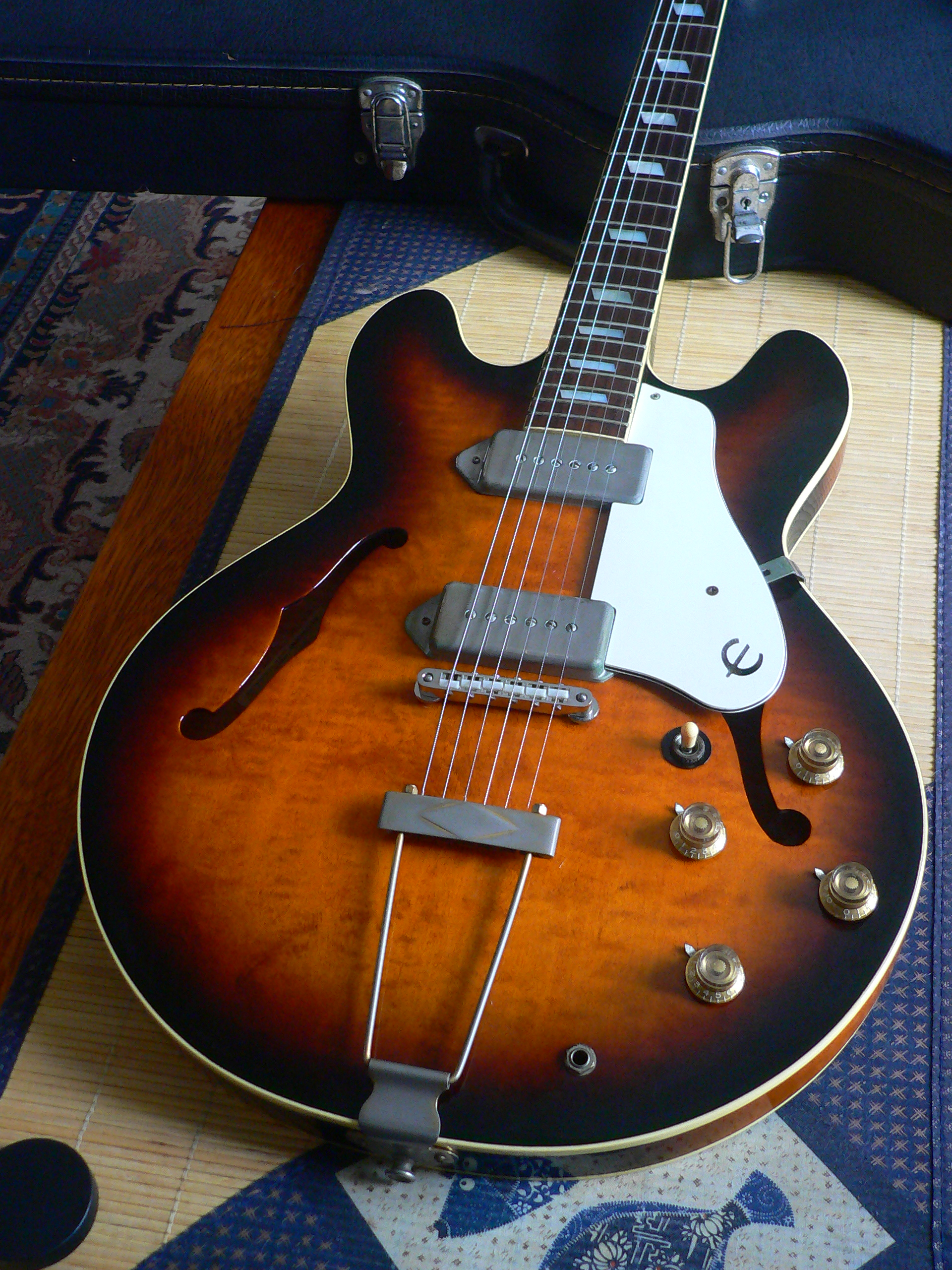 1983 Epipnone Casino, Manufactured by Matsumoku, Japan